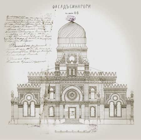 Architect's drawing of the Grand Choral synagogue of St Peters burg in Russia. This drawing was refused by the Tsar Alexander II who wanted a more modest building